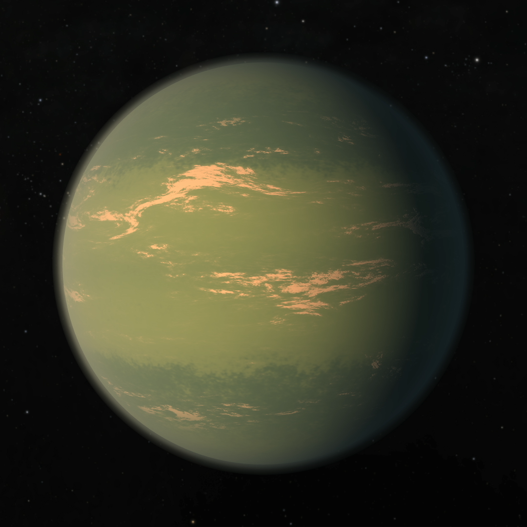 Artist's impression of the exoplanet TRAPPIST-1g, located in the Aquarius system of TRAPPIST-1. Originally created for NASA as part of their announcement of discoveries in the TRAPPIST-1 system on 22 February 2017. According to NASA, the planet is depicted "with an atmosphere like Neptune's, although it is still a rocky world." Screenshotted and cropped from File:PIA21468 - TRAPPIST-1 Planets - Flyaround Animation.ogg.